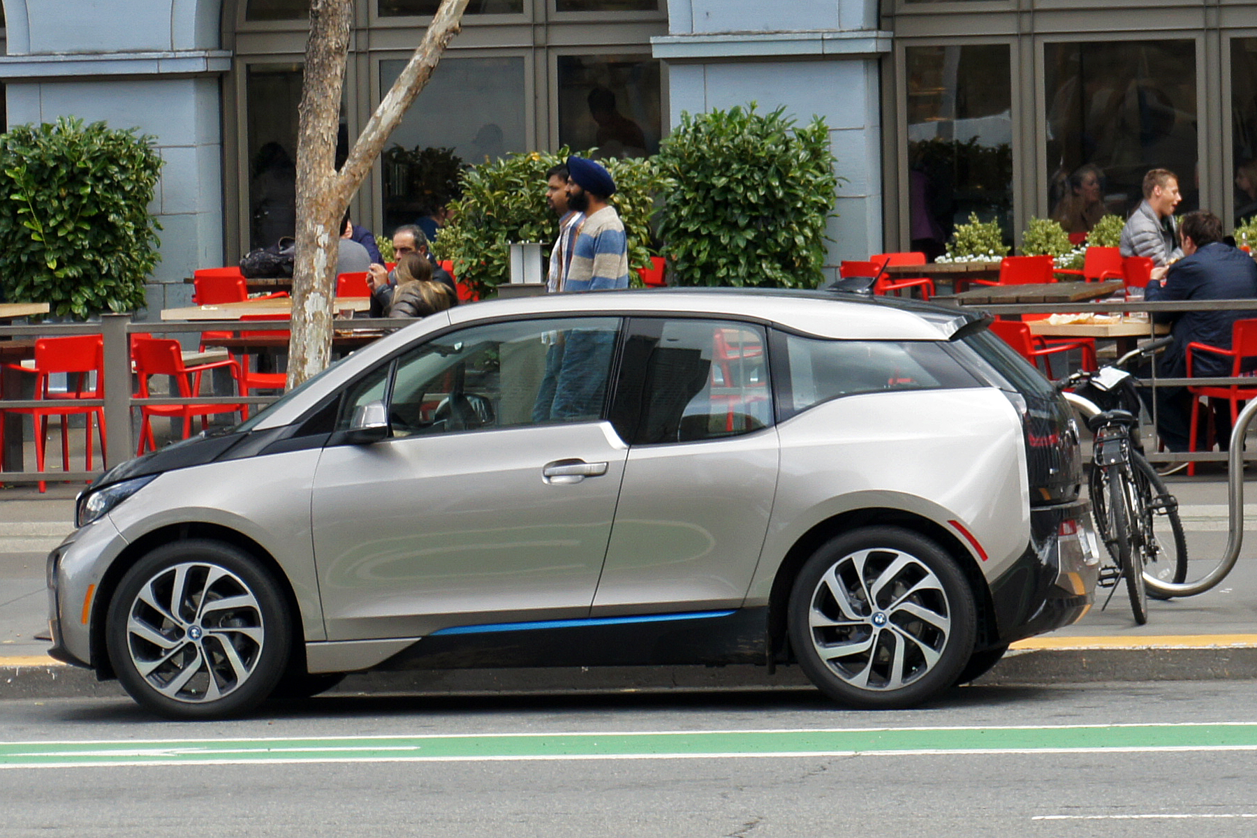 BMW i3 electric car, Embarcadero, San Francisco, California